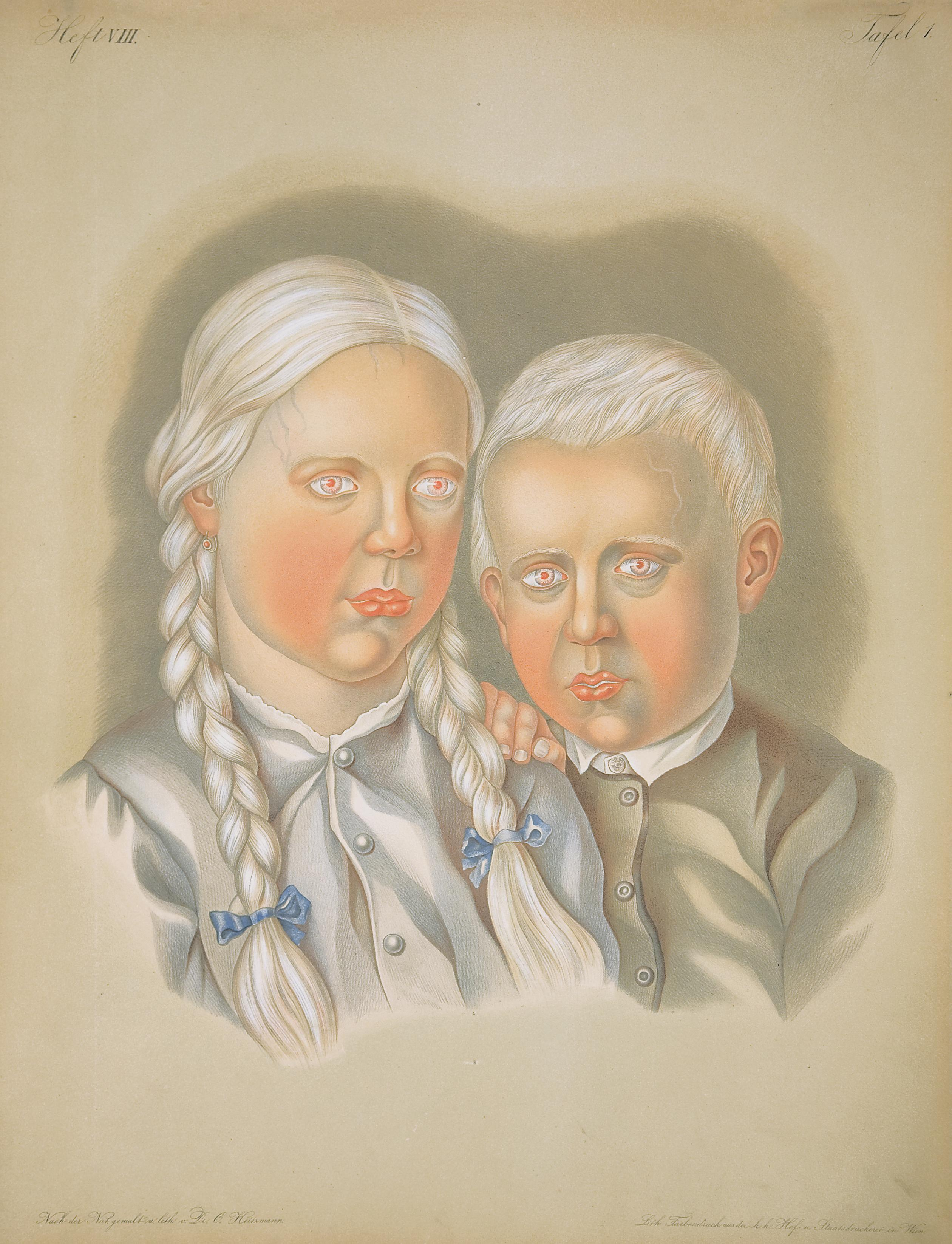 Publication: Bethesda, MD : U.S. National Library of Medicine, National Institutes of Health, Health & Human Services, [2010] Language(s): German Format: Still image Subject(s): Albinism Child Genre(s): Pictorial Works Book Illustrations Abstract: Image of a lithograph from Hebra's Atlas, pt. 8, pl. 1, showing two albino children, a girl with long braids and a slightly younger boy, supposedly her brother. Related Title(s): Hidden treasure Is part of: Atlas der Hautkrankheiten; See related catalog record: 67440930R Extent: 1 online resource (1 image) NLM Unique ID: 101596596 NLM Image ID: A033085 Permanent Link: NLM Hidden treasure p. 125